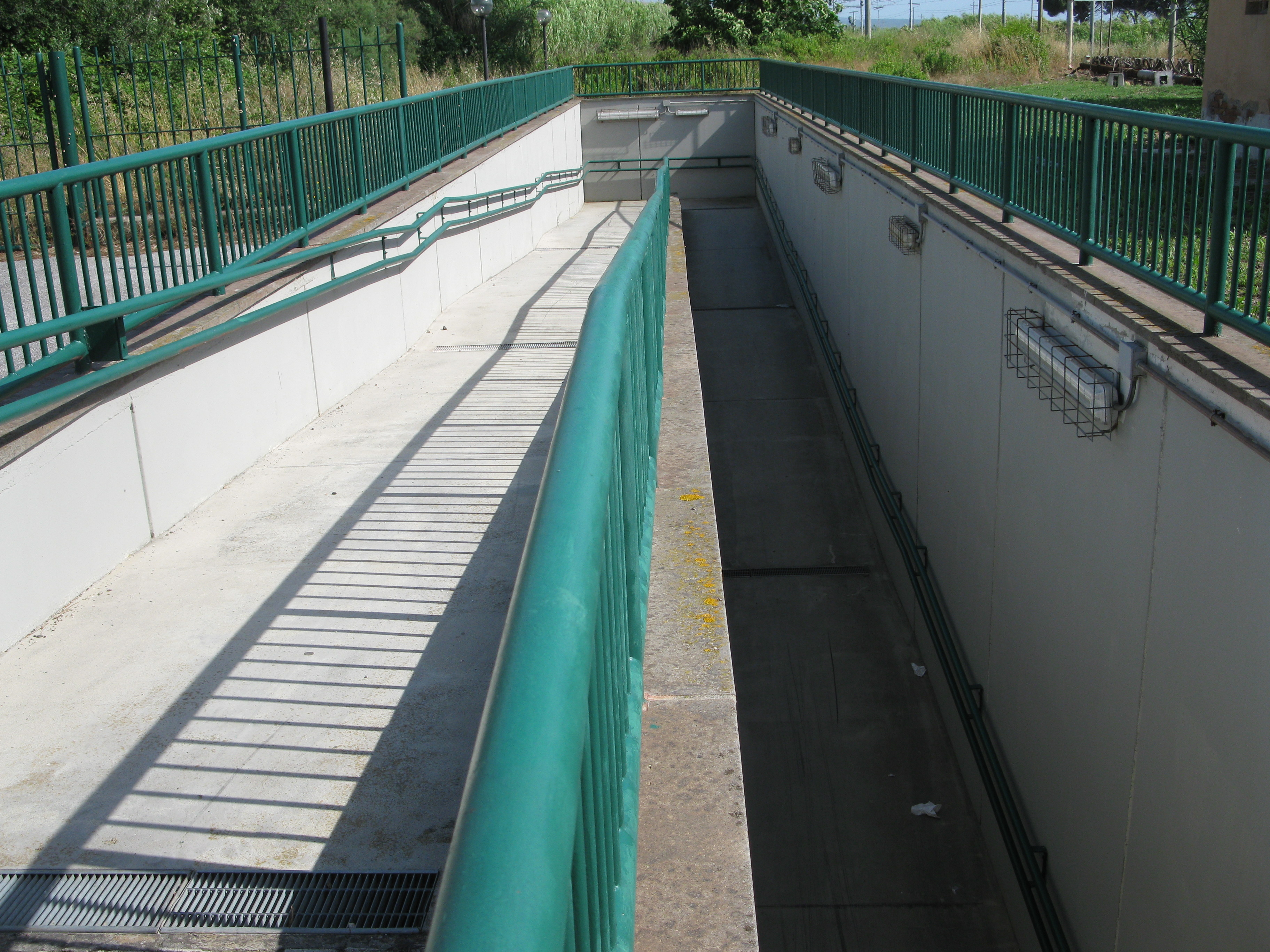 Bolgheri railway station, subway